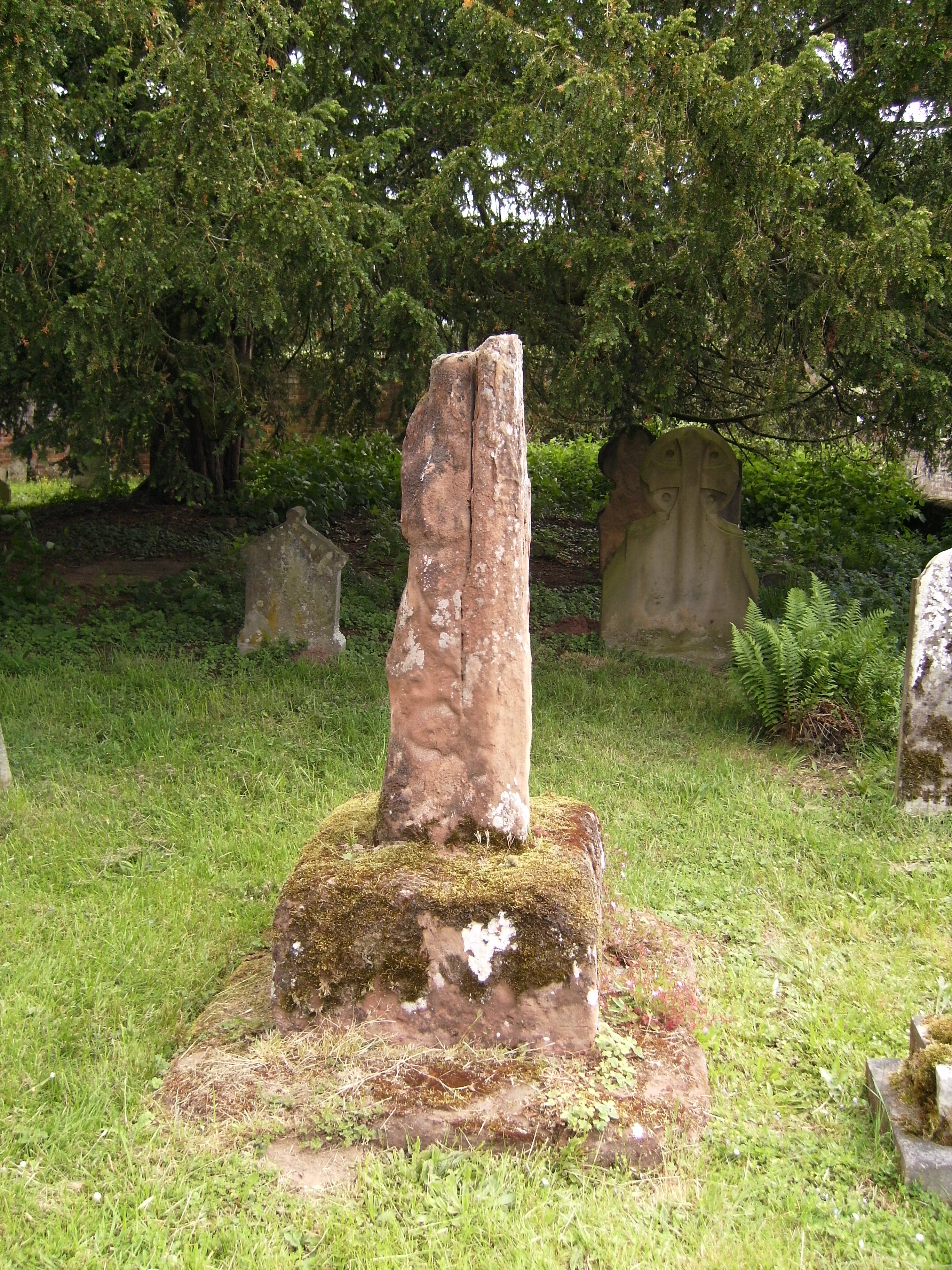 Base and broken shaft of late Medieval churchyard cross at St Giles' parish church, Badger, Shropshire